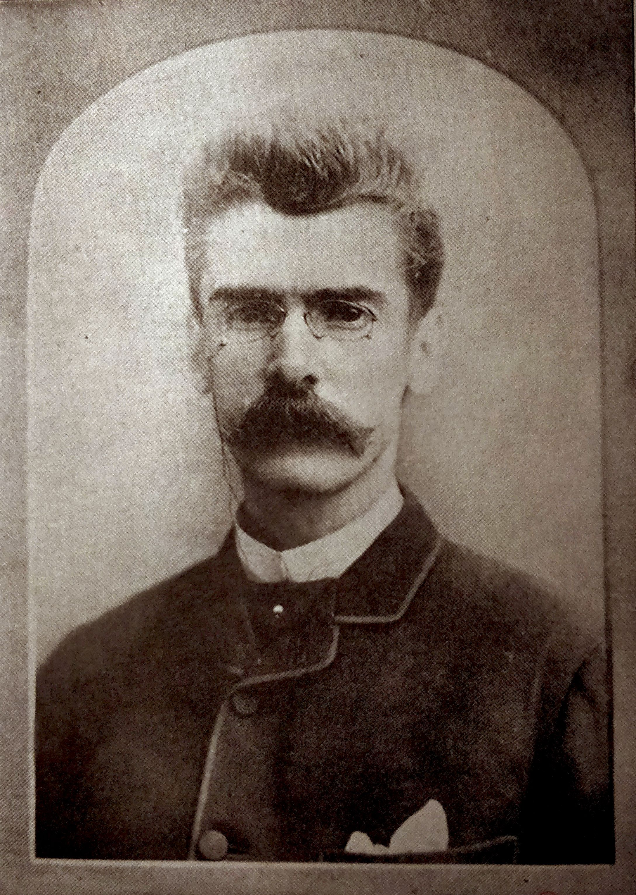 Portrait of Andrew White Tuer.